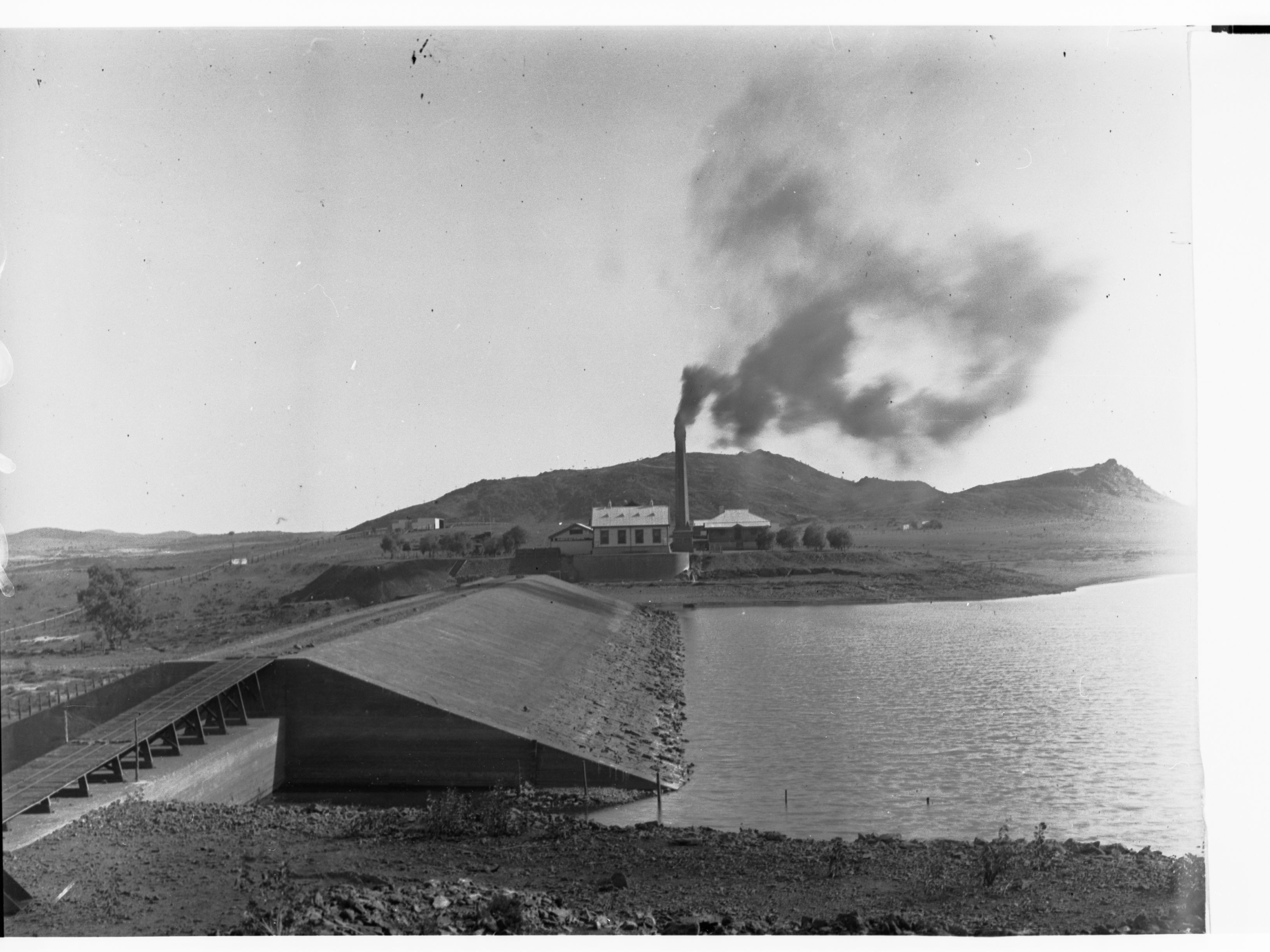 This photo shows the embankment of Stevens Creek at Broken Hill Reservoir with the Stevens Creek Pumping Station in the background. The first sod of the Stephens Creek reservoir was turned by Sir Henry Parkes (Premier of New South Wales) in April 1890. The dam was completed in 1892 by the Broken Hill Water Supply Company to provide a continuing water source for drought-ridden Broken Hill. The reservoir soon became inadequate and a further reservoir, Umberumberka, was built to add to the water supply. Stephens Creek Reservoir remains the primary water source for Broken Hill today. Microfiche incorrectly states Stevens Hill instead of Stevens Creek